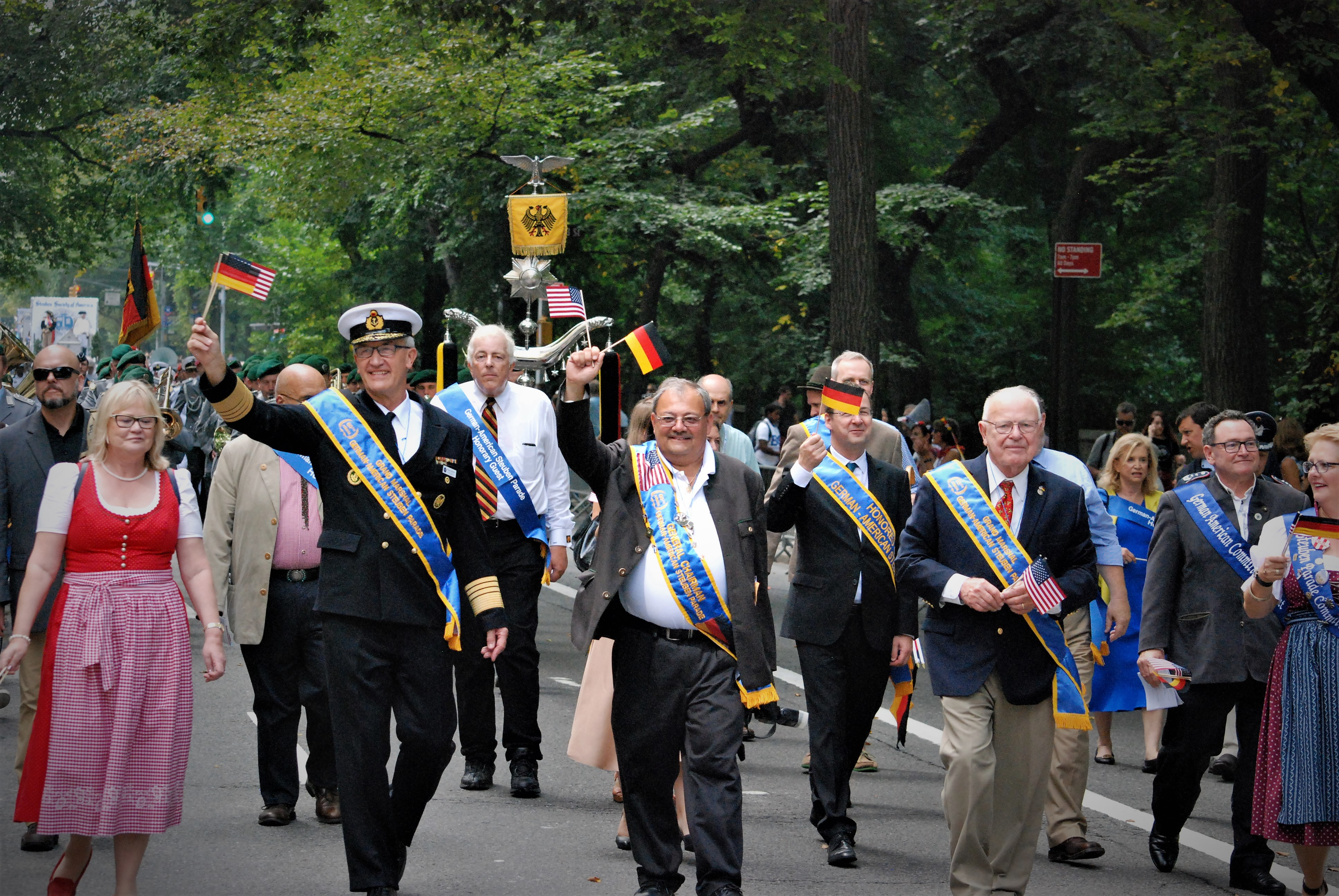 Parade Chairman Bob Radske with 2017 Grand Marshals Admiral Nielson and Heinz Buck